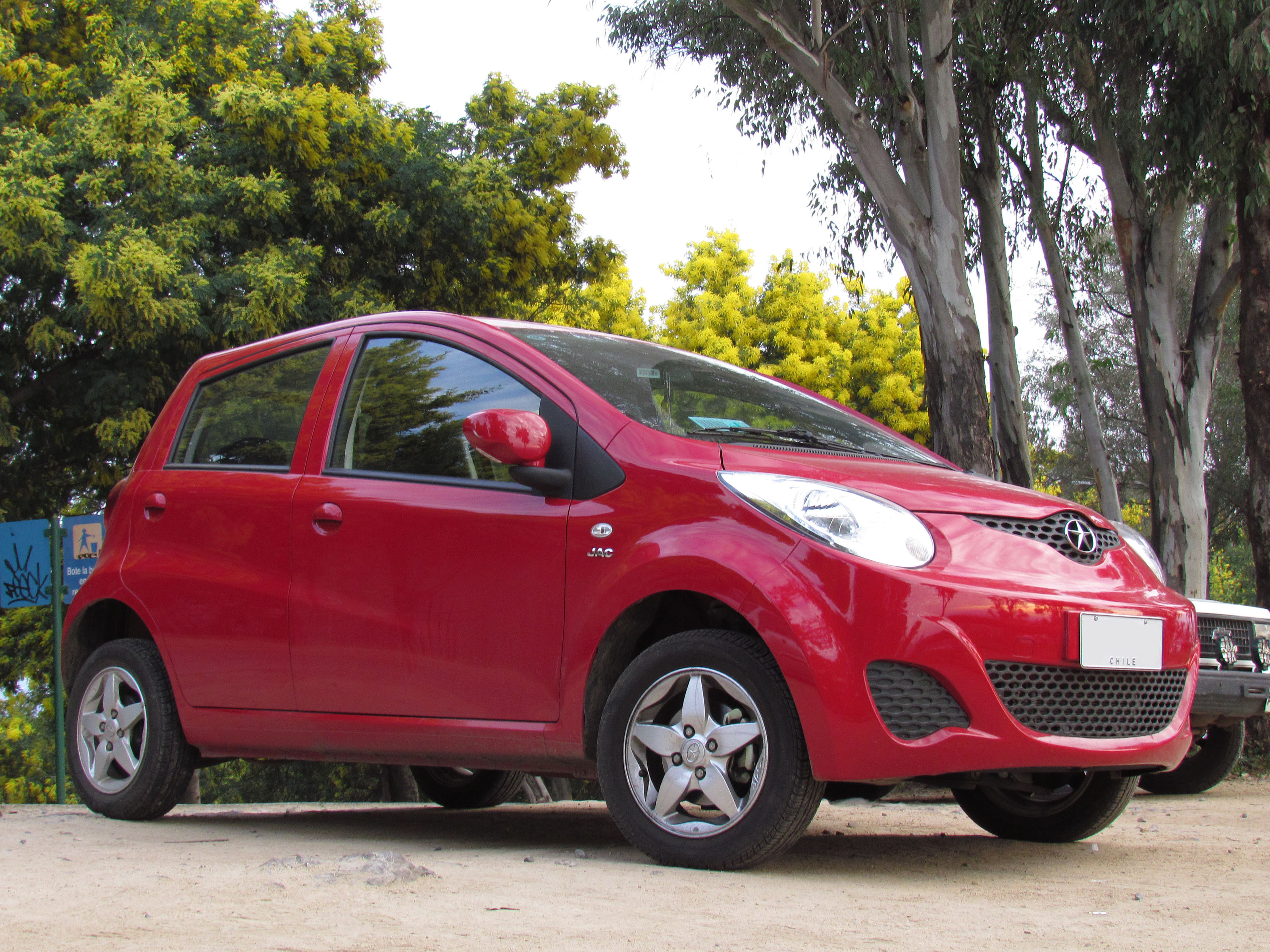 JAC J2 1.0 CE 2013